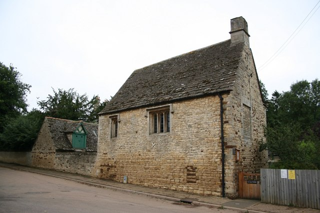 The Priest's House. Small National Trust property on West Street, Easton-on-the-hill. A pre-Reformation priest's lodge of c1500, not usually staffed but the key can be obtained nearby.